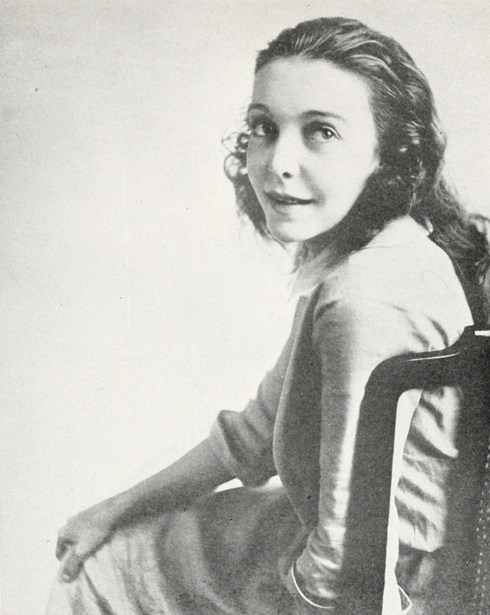 Actress Zasu Pitts from Who's Who on the Screen, published by Ross Publishing Co., 1920 [1]